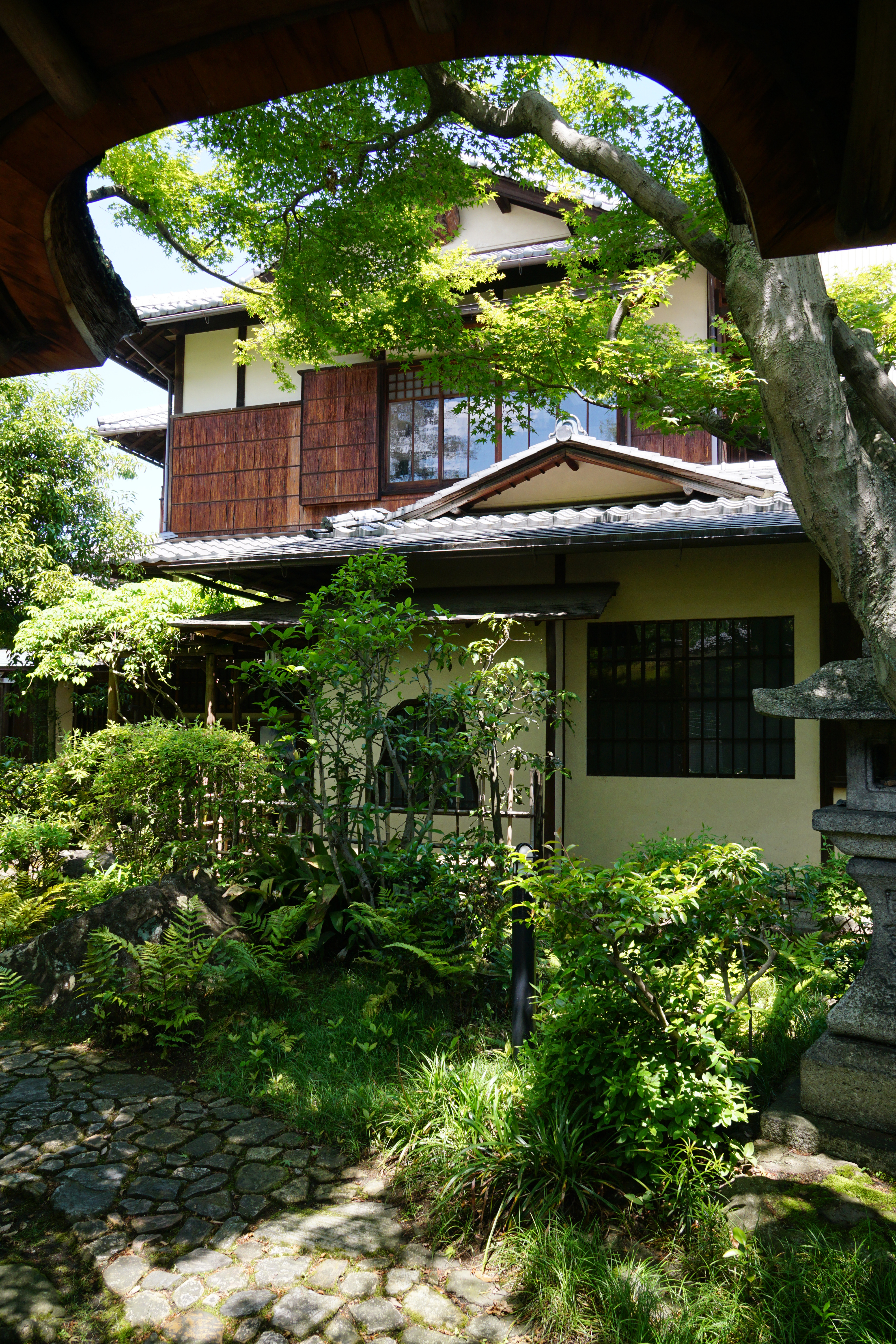 Rokasensuisou in Otsu, Shiga prefecture, Japan